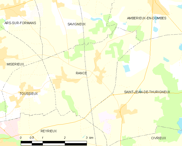 Map of French commune: Rancé Map commune FR insee code 01318.png